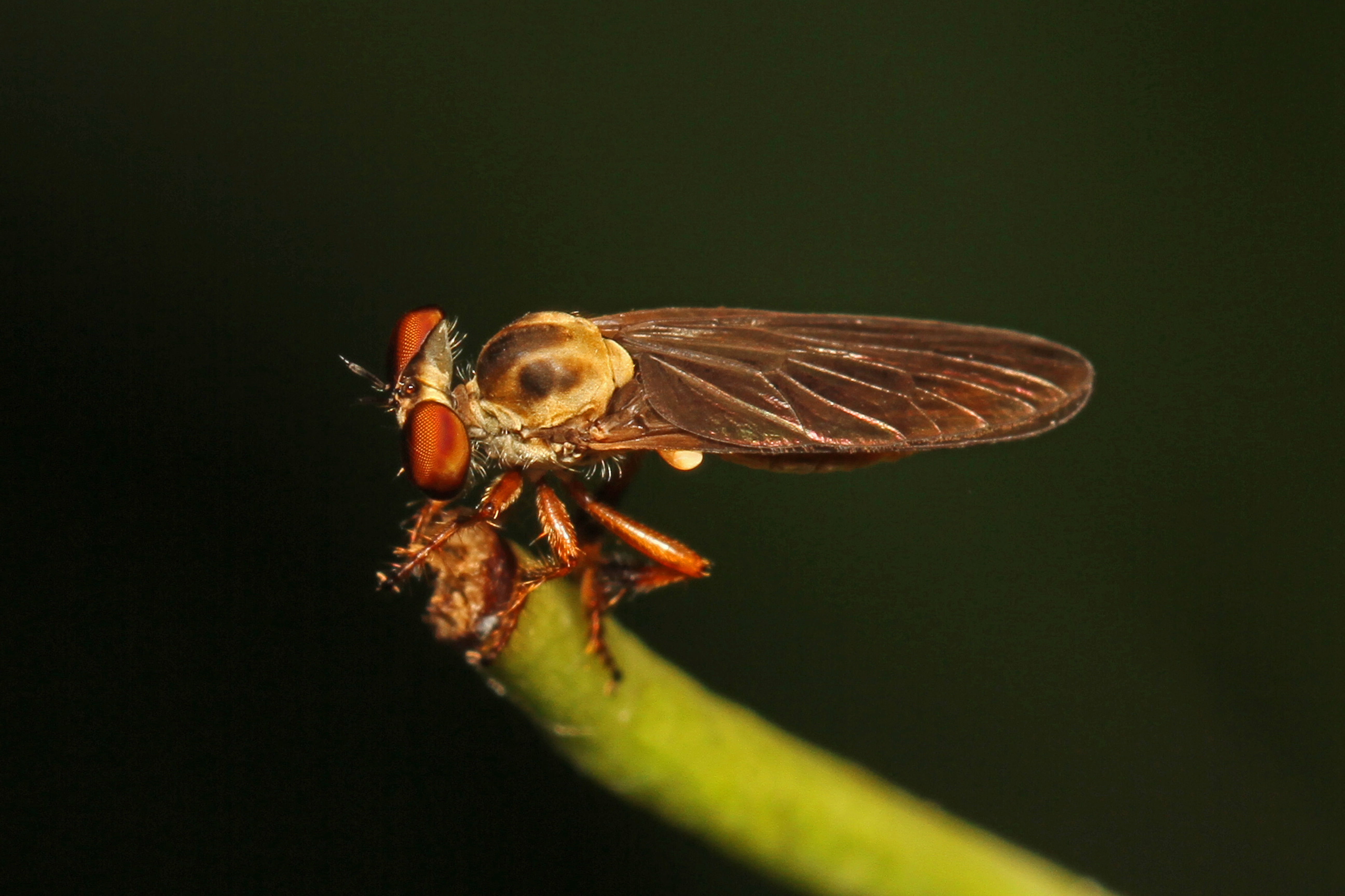 Robber Fly - Holcocephala abdominalis, Four Locks, C&O Canal National Historic Park, Maryland. 8/23/2013 Washington County - identified by Herschel Raney, Bugguide